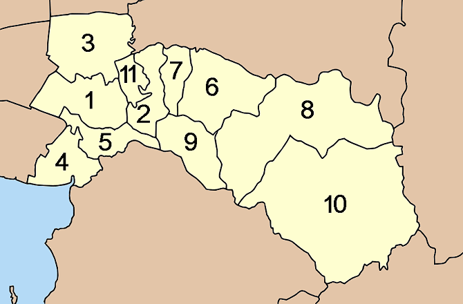 Map of Chachoengsao province, Thailand, with the districts (Amphoe) numbered Mueang Chachoengsao (เมืองฉะเชิงเทรา) Bang Khla (บางคล้า) Bang Nam Priao (บางน้ำเปรี้ยว) Bang Pakong (บางปะกง) Ban Pho (บ้านโพธิ์) Phanom Sarakham (พนมสารคาม) Ratchasan (ราชสาส์น) Sanam Chai Khet (สนามชัยเขต) Plaeng Yao (แปลงยาว) Tha Takiap (ท่าตะเกียบ) Khlong Khuean (sub-district) (คลองเขื่อน)